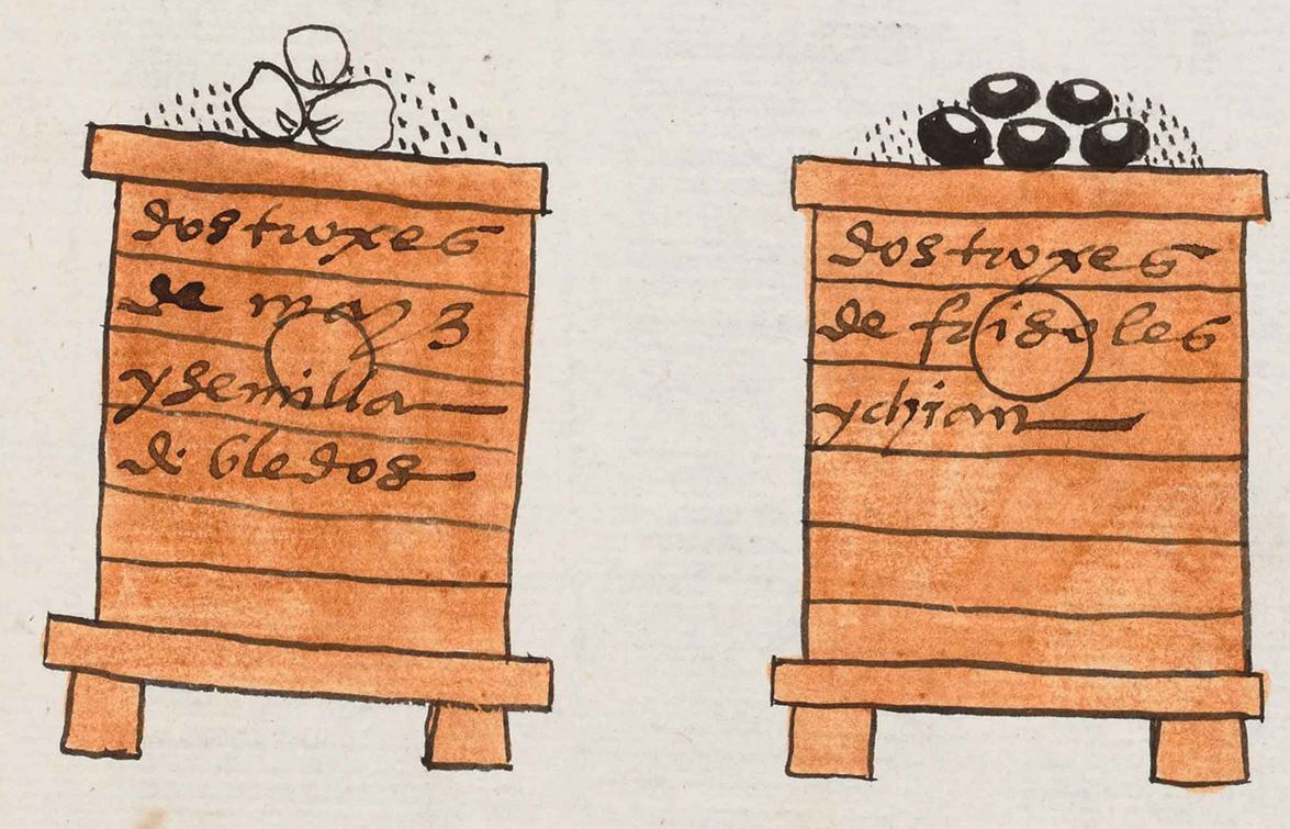 Two Troje containers with beans corn chia amaranth grains Representative tributary unit of barns (Cuexcomatl) detail Codex Mendoza p25